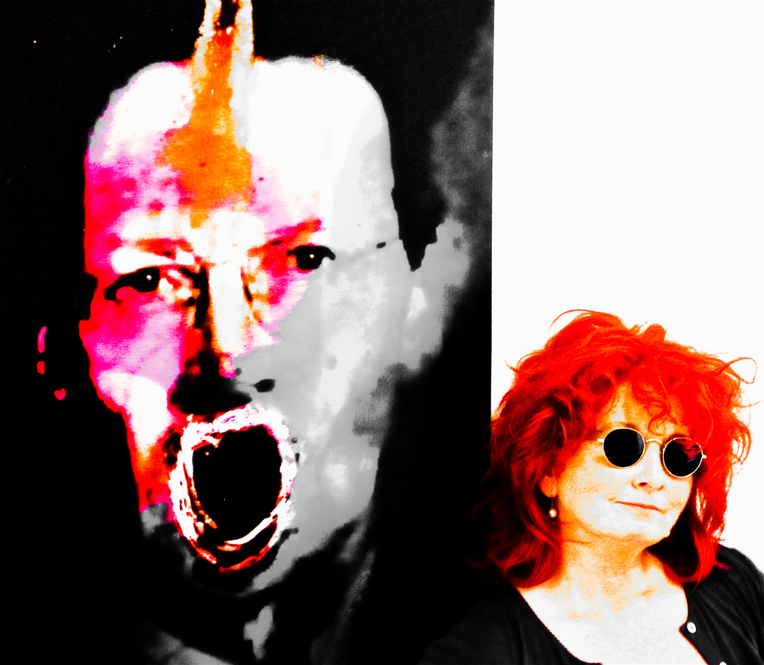 This is one image from an exibition